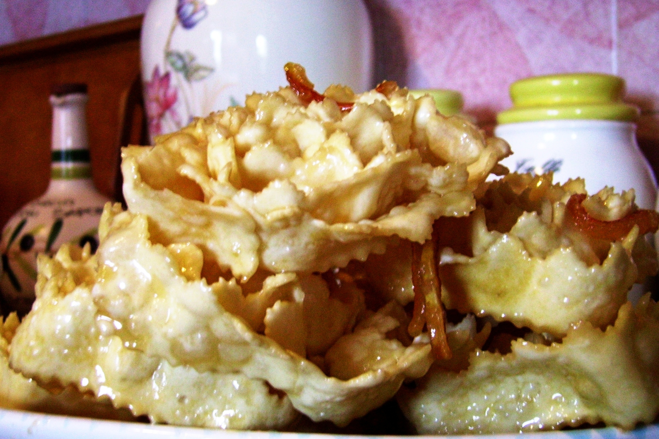 Orilletas, a tipical sardinian cake.